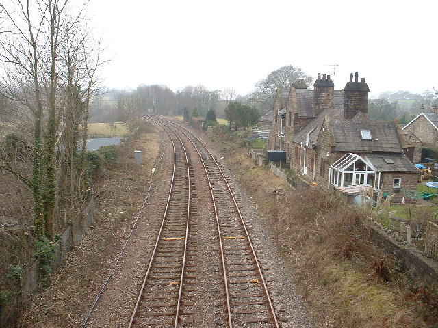 Railway at Borwick. This is the Carnforth to Leeds line. The unmistakably 'railway' houses used to be Borwick station.